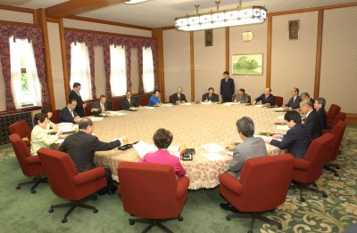 Jun'ichirō Koizumi, Prime Minister, presided the Cabinet Meeting at the Prime Minister's Official Residence in Chiyoda Ward, Tōkyō Metropolis on April 26, 2002.